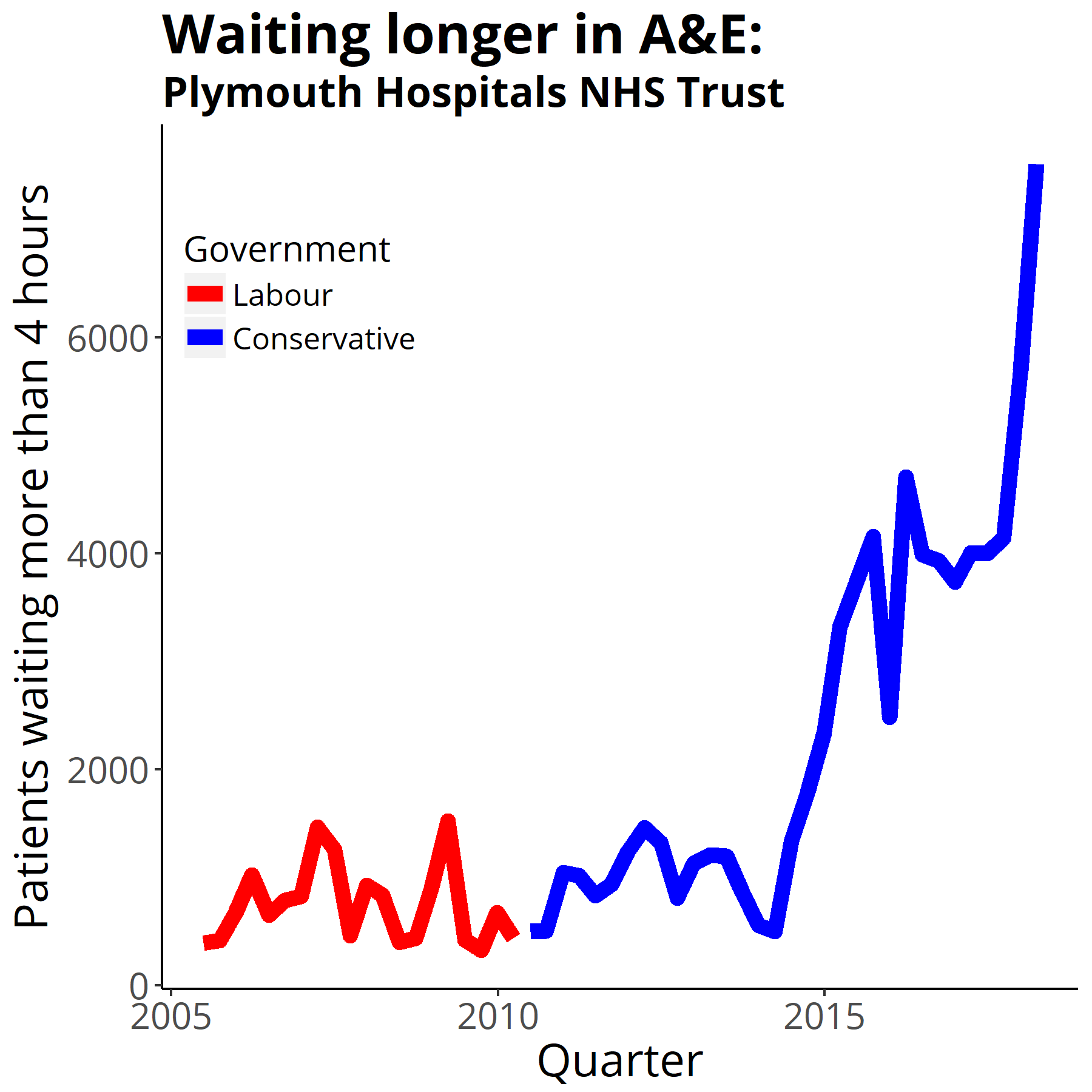 Four-hour target in the emergency department quarterly figures from NHS England Data from